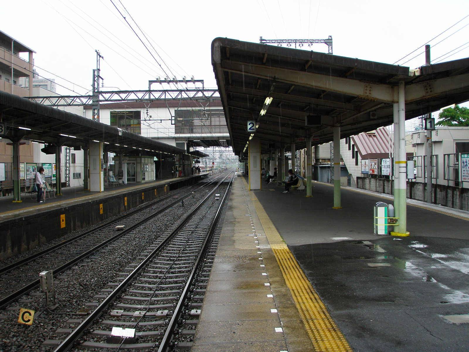 Kinki Nippon Railway Kyoto Line Shin-Tanabe Station Platform